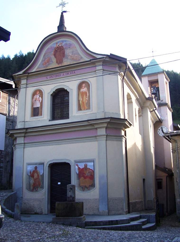 Sant'Antonio (Corteno Golgi), Val Camonica